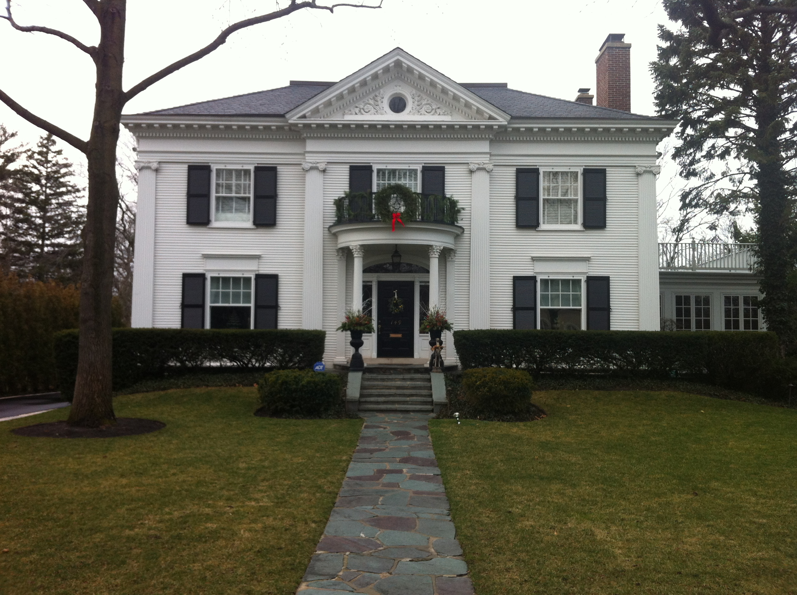 Picture of Mr. J. William de Coursey O'Grady House at 149 Kenilworth Ave in Kenilworth IL